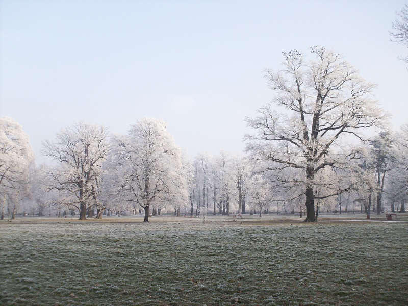 City Park in Legnica